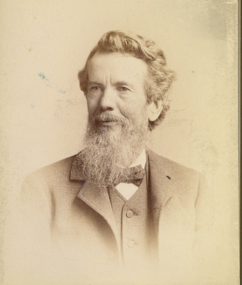 Depicted person: Jonathan Baxter Harrison – Unitarian minister, journalist, early social scientist